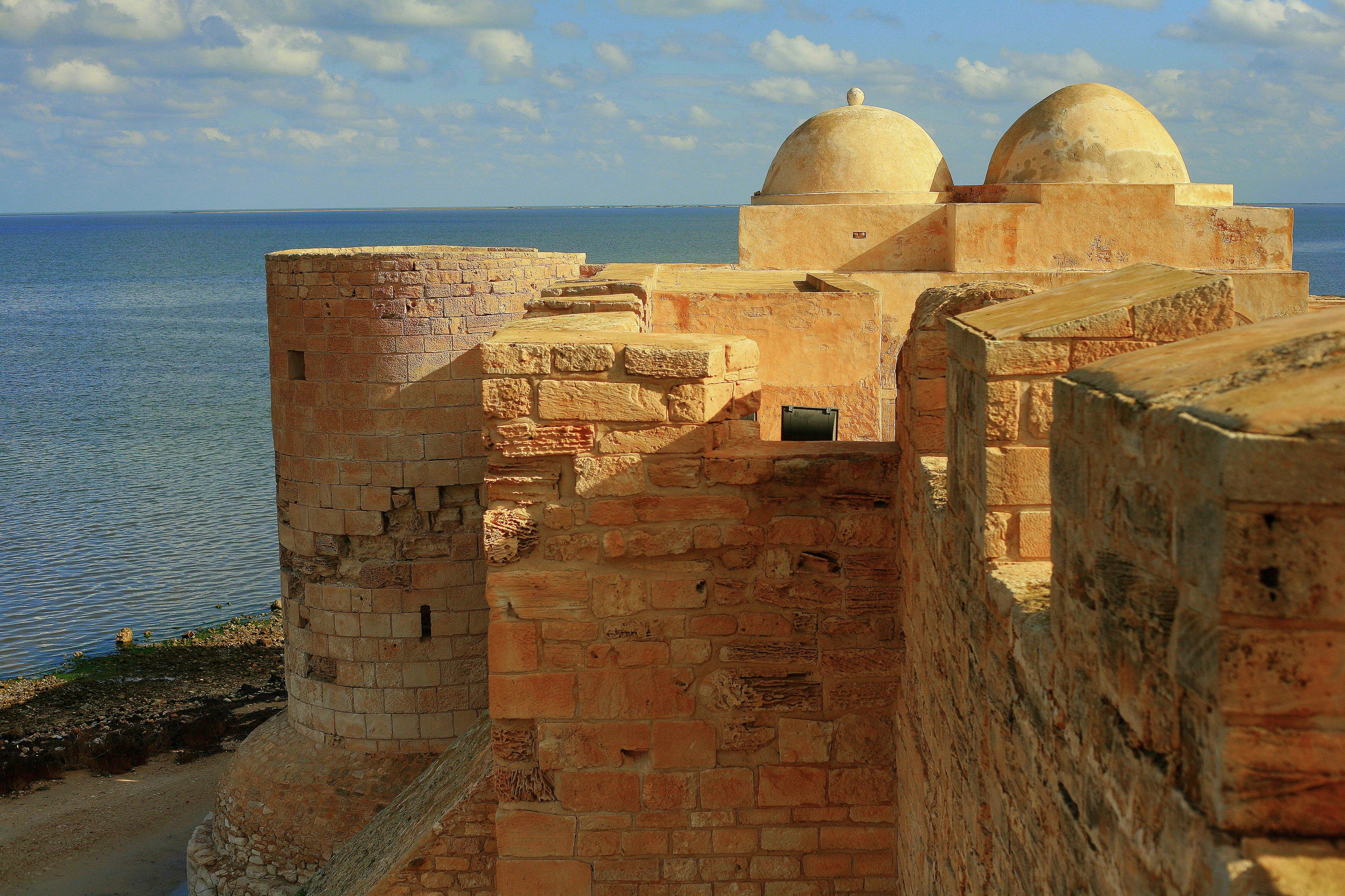 Fort Djerba, Tunisia